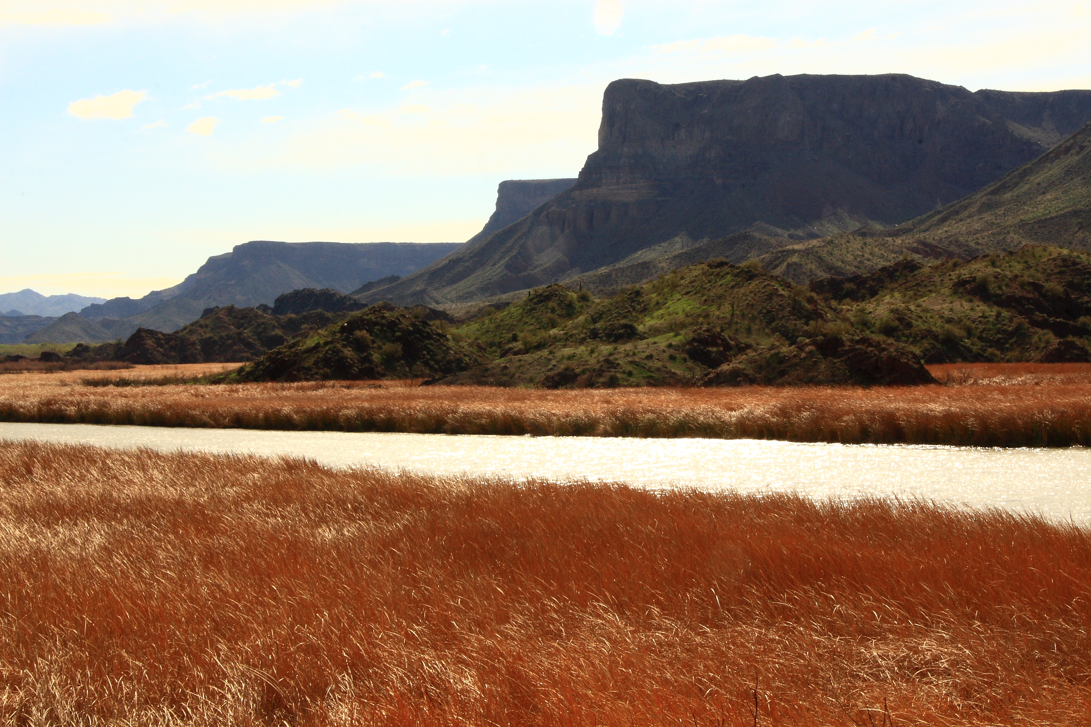 Bill Williams River at Southern end of Lake Havasu in Arizona